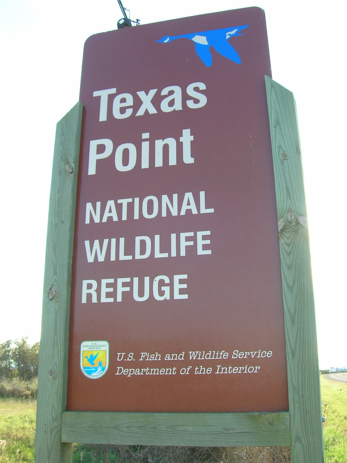 Texas Point National Wildlife Refuge near Sabine Pass, Texas.